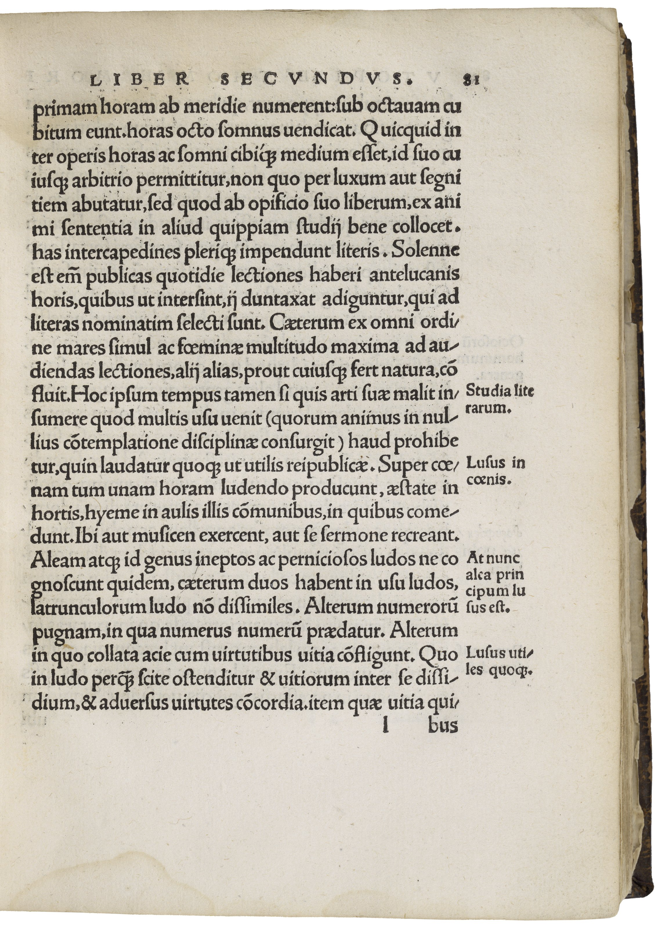 This is the page 81 of Thomas More's Utopia (november 1518)